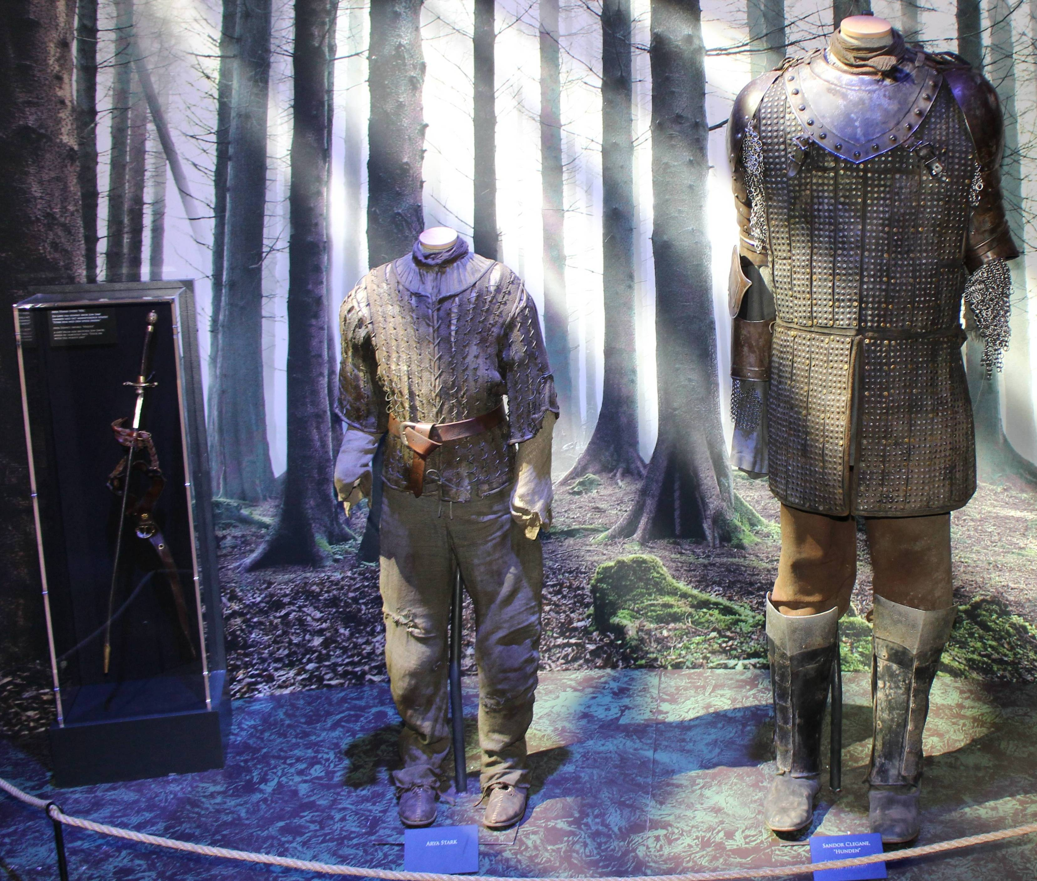 Costumes worn by the characters Arya Stark and Sandor Clegane in the TV series Game of Thrones, exhibited by HBO in Oslo in 2014.